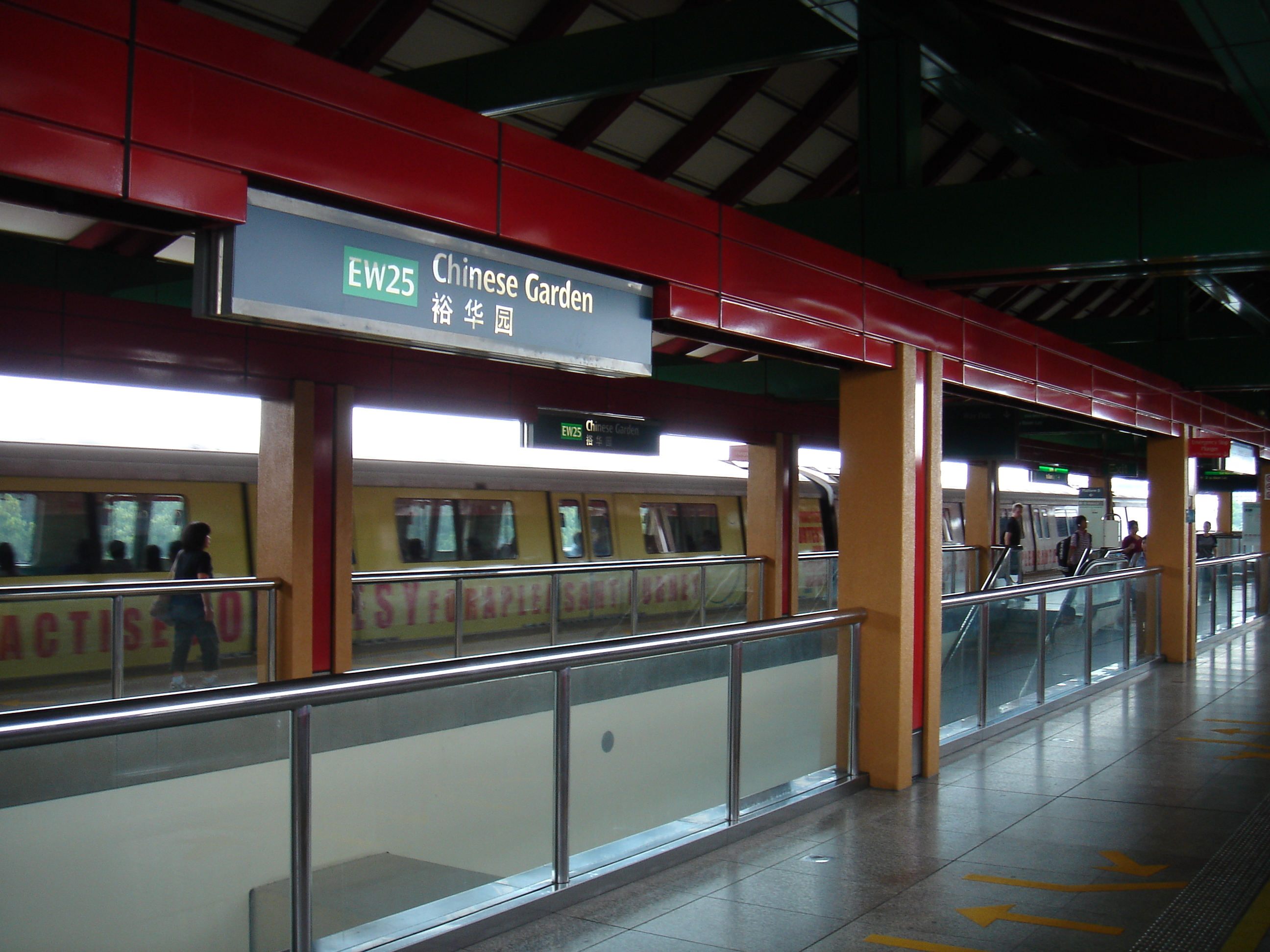 A C151 train at East-West Line.